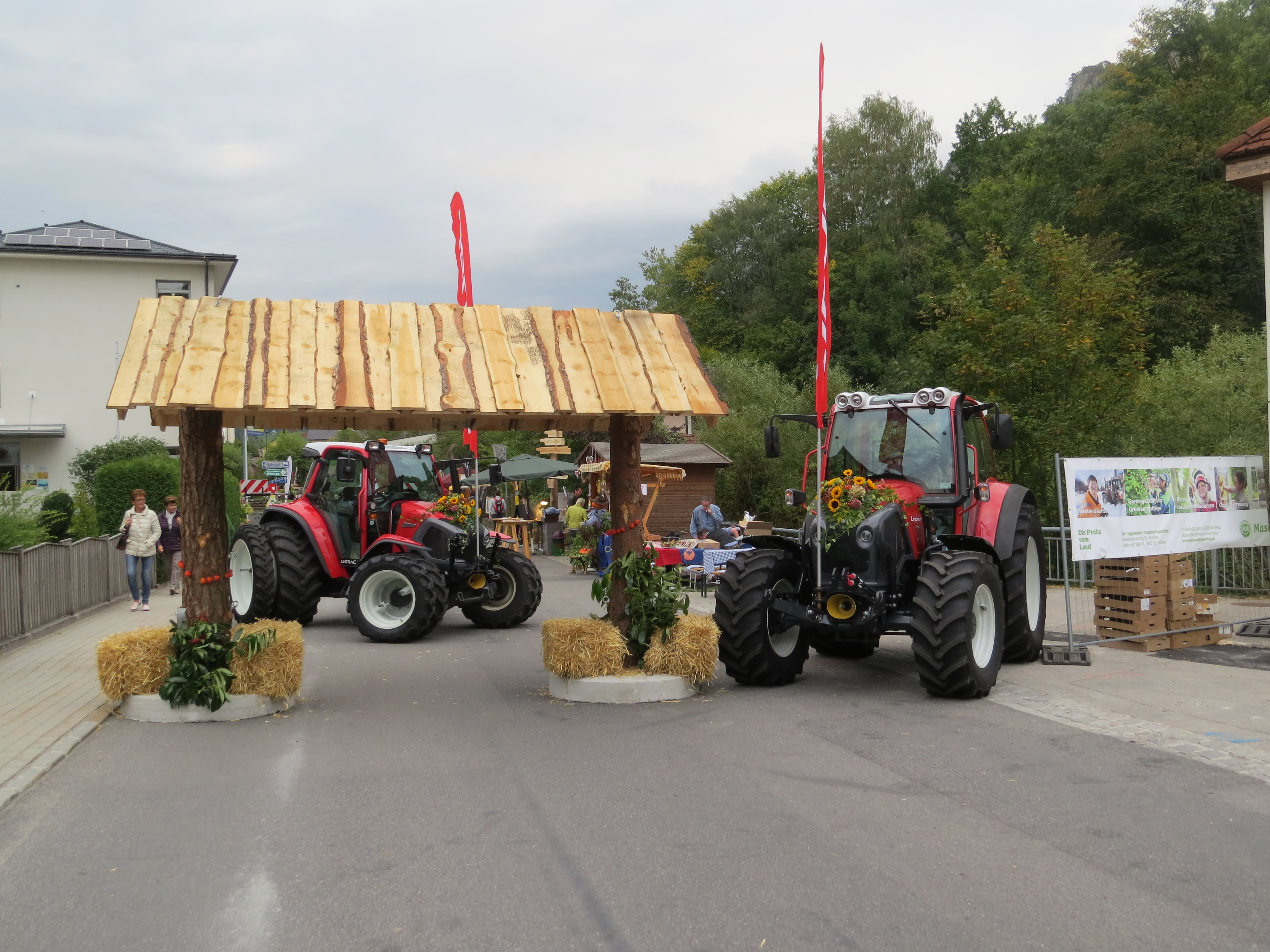 Lindner tractors positioned in the entrance area of Dirndlkirtage to prevent attacks, as in Nice on July 14, 2016.